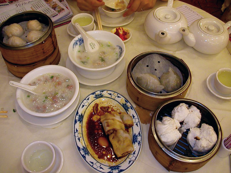 Dim sum Author: User:Das O2~commonswiki Notes: Typical dim sum breakfast in Hong Kong. From left to right and top to bottom: shrimp dumplings (ha gau), jasmine tea, chicken and vegetable 'congee' (two bowls with spoons), hot sauce dip (red), steamed dumplings, rice noodle rolls with soy sauce ('cheong fun', on plate), steamed buns with pork filling (three, 'char siu bau').